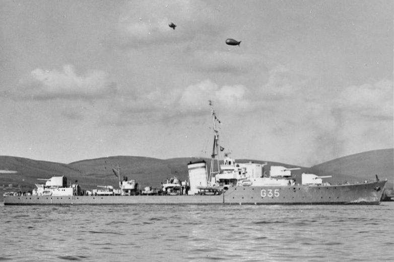 British destroyer HMS MARNE secured to a buoy.